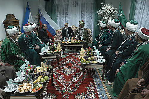 Ufa. President of Russia Vladimir Putin, Chief Mufti of the Spiritual Directorate of Muslims of Russia Talgat Tadzhuddin and top Muslim religious leaders of Bashkortostan